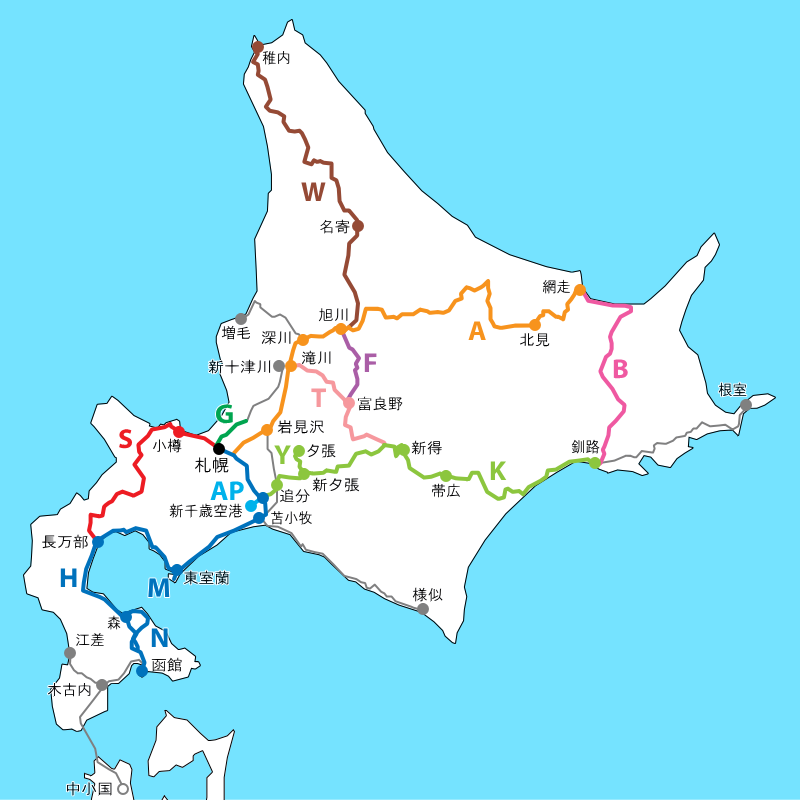 Line colours of JR Hokkaido